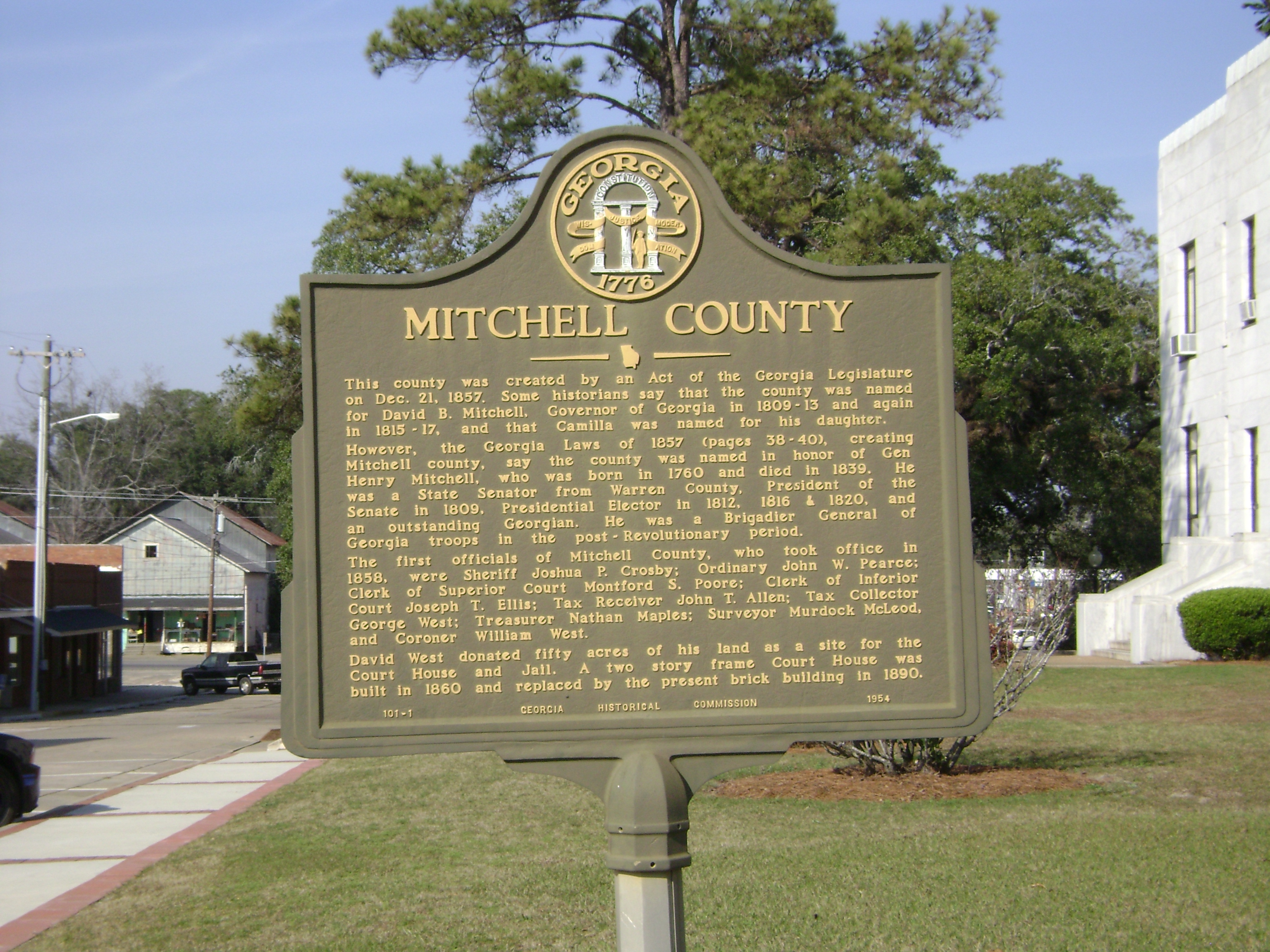 Mitchell County Historical Marker on the west side of the courthouse square, Camilla, Mitchell County, Georgia